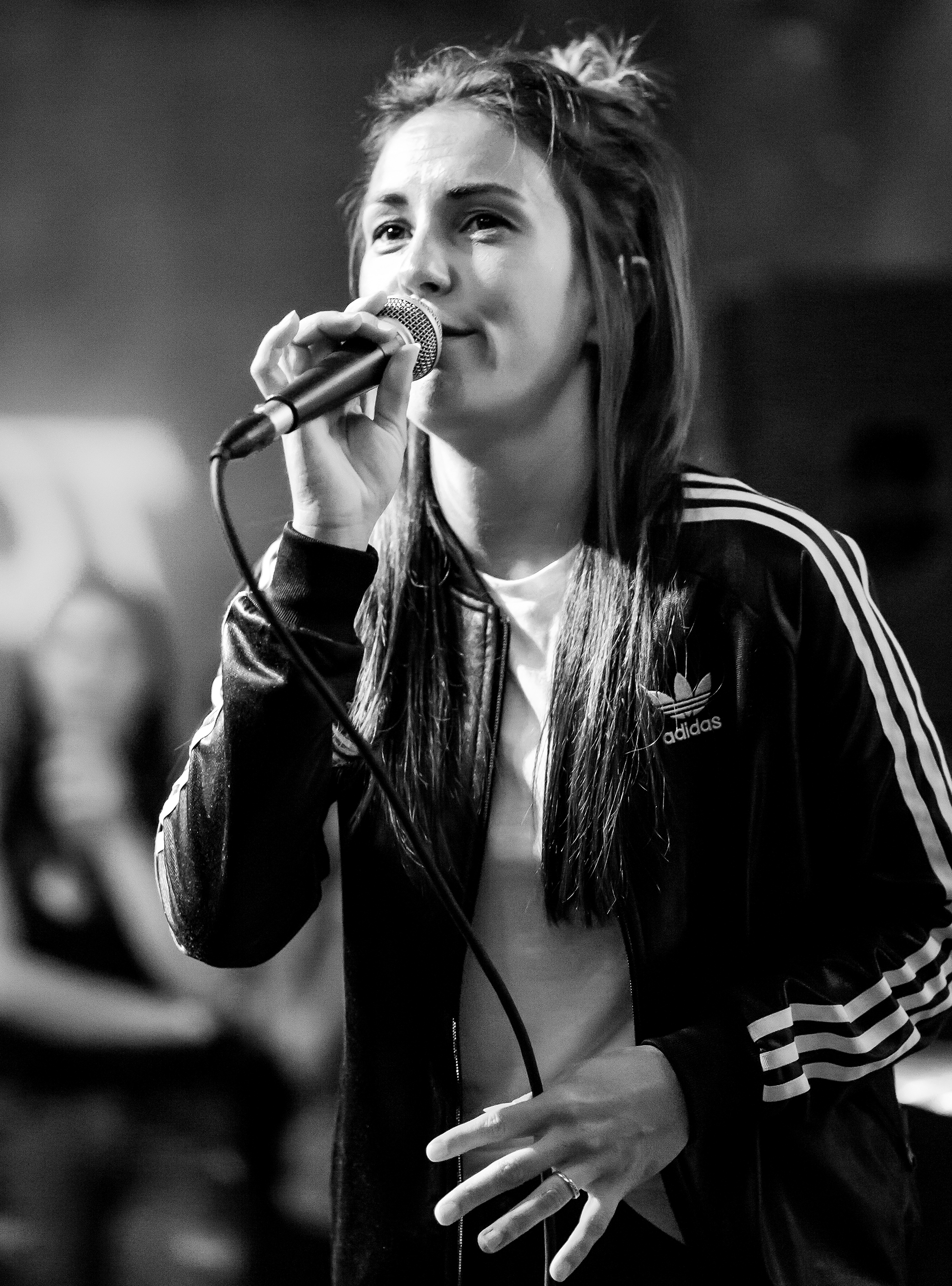 Amy Shark performing live at School Night at Bardot Hollywood in Los Angeles, California, on Monday, June 12, 2017.